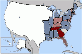 1836 elections USA results